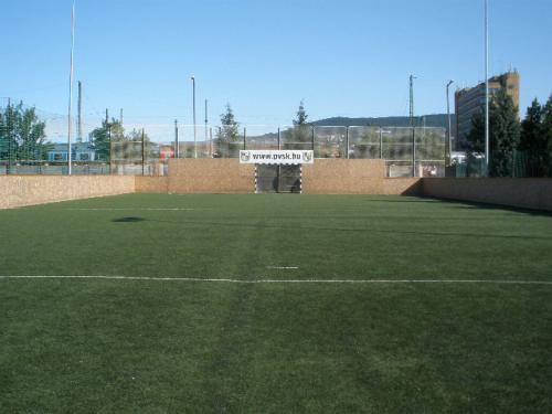 Pvsk small football pitch with artificial grass cover